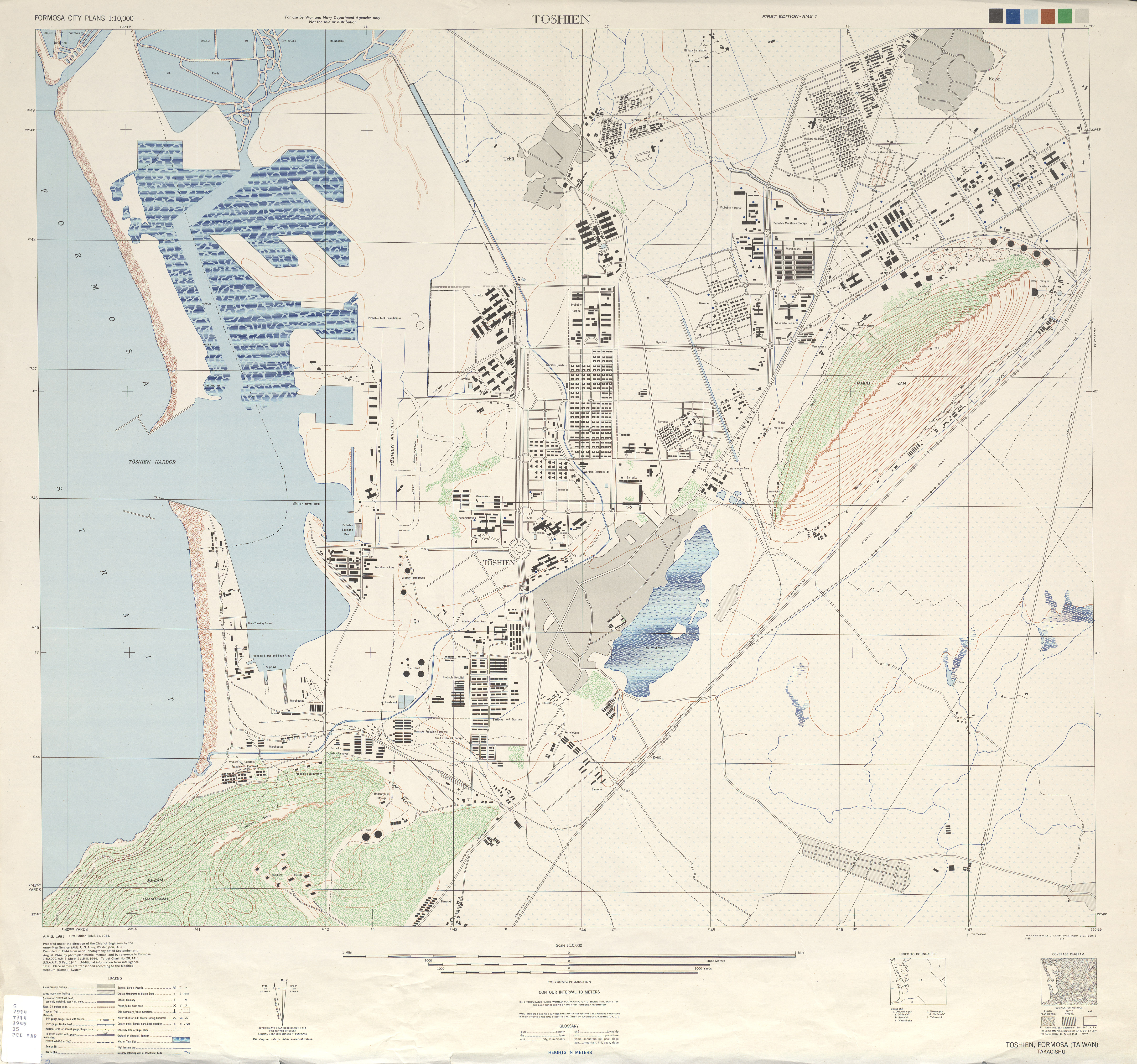 Map of Toshien